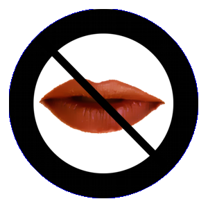 An attemp for an Icon, Own creation